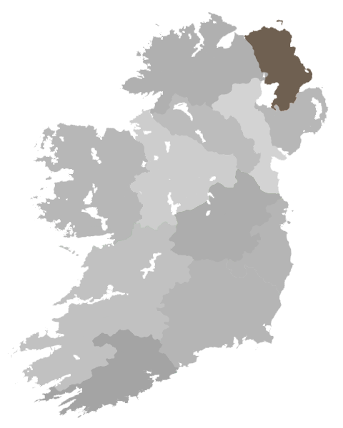 Location map of the Church of Ireland Diocese of Connor Information source: Church of Ireland website]